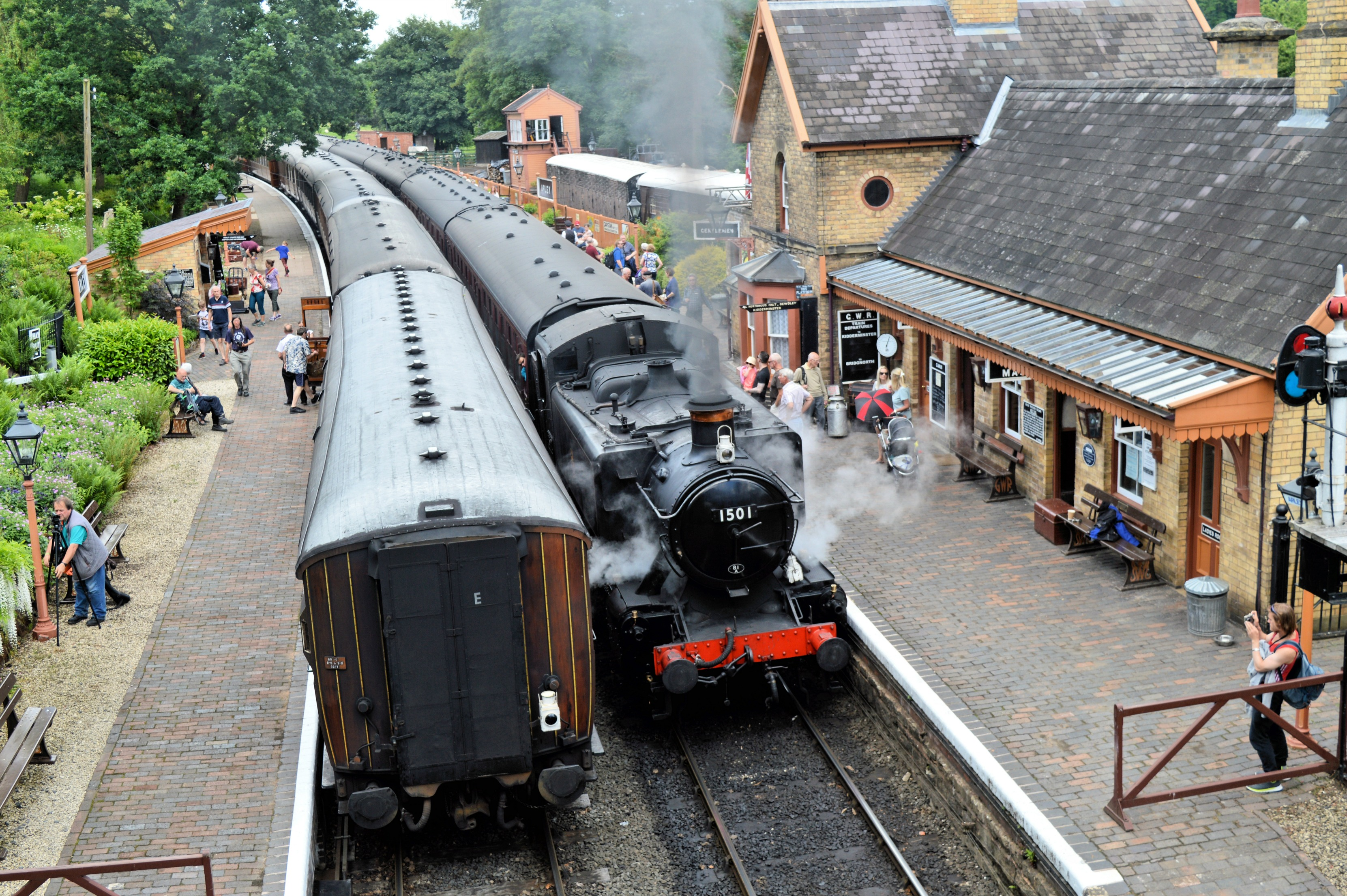 Trains passing at Arley. Hawksworth pannier 1501 has just arrived on a Kidderminster service, which will allow Taw Valley to proceed northward with her train of priceless LNER teak coaches. Within a few moments peace will return with only birdsong breaking the silence.